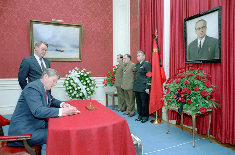 President Reagan signing Condolence book on death of Chairman of USSR Yuriy Andropov at the Soviet Embassy